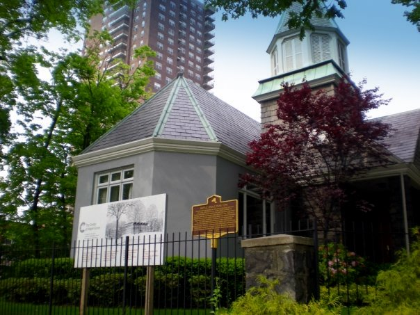 Entrance to Maple Grove Cemetery in Kew Gardens, Queens.